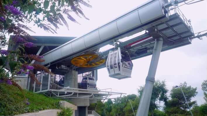 Gondola lift Montjuïc Barcelona